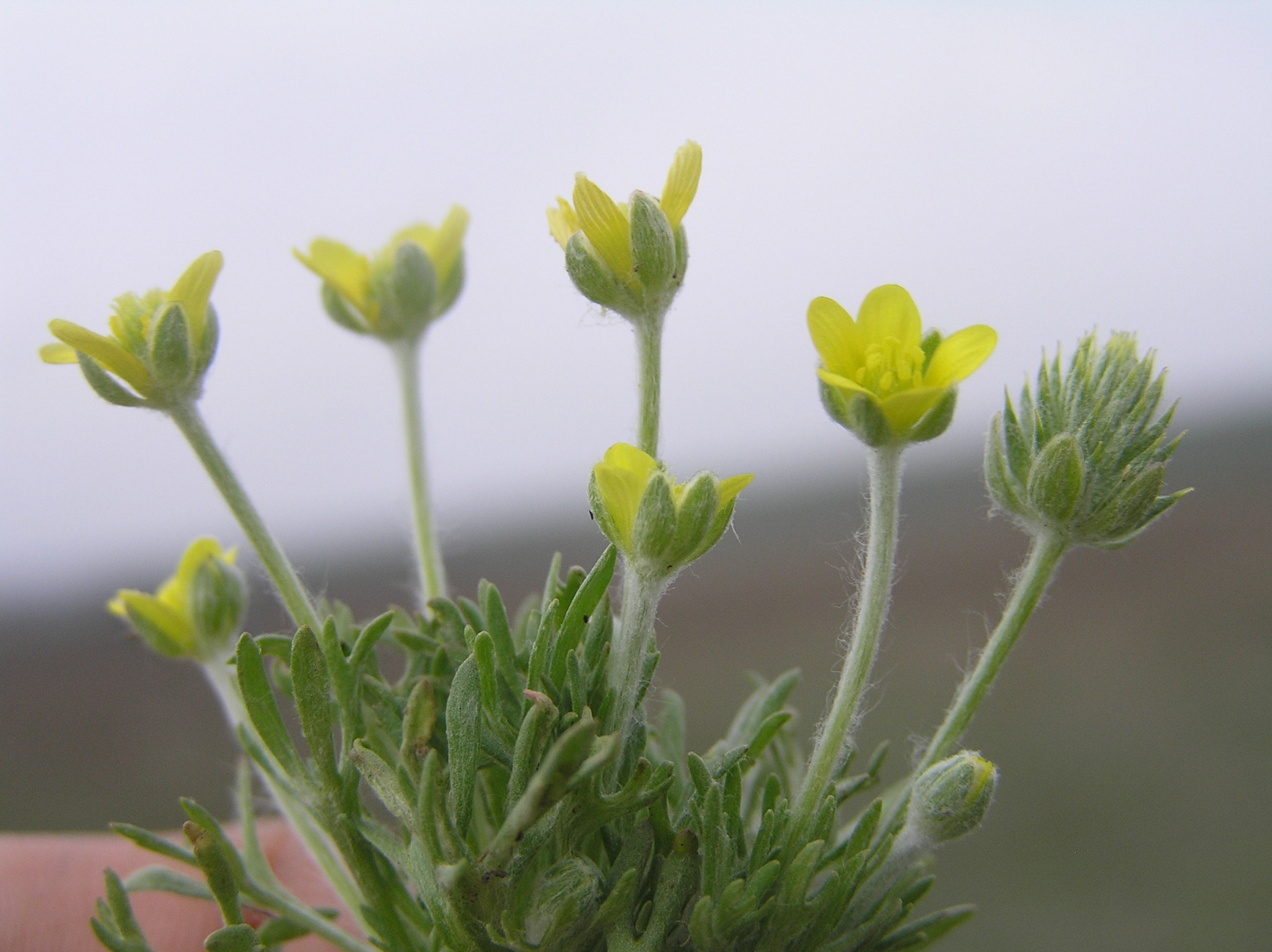 Ceratocephala orthoceras, eastern Ukraine